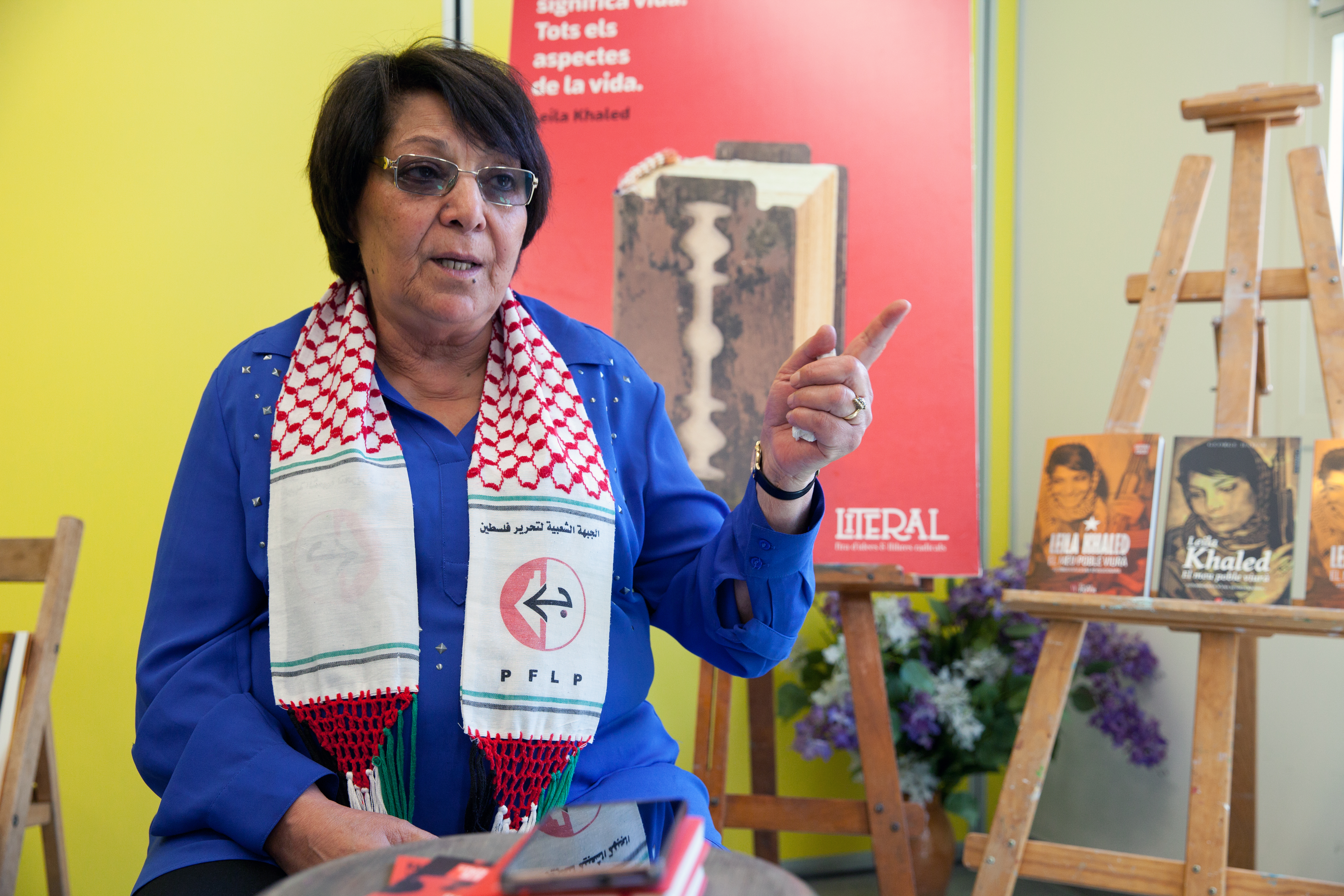 Presentation of the second edition in Catalan of Leila Khaled's book El meu poble viurà. Biografia d'una revolucionària (originally in English My People Shall Live: The Autobiography of a Revolutionary) the 14th May of 2017 at the Barcelona's Literal Fair.